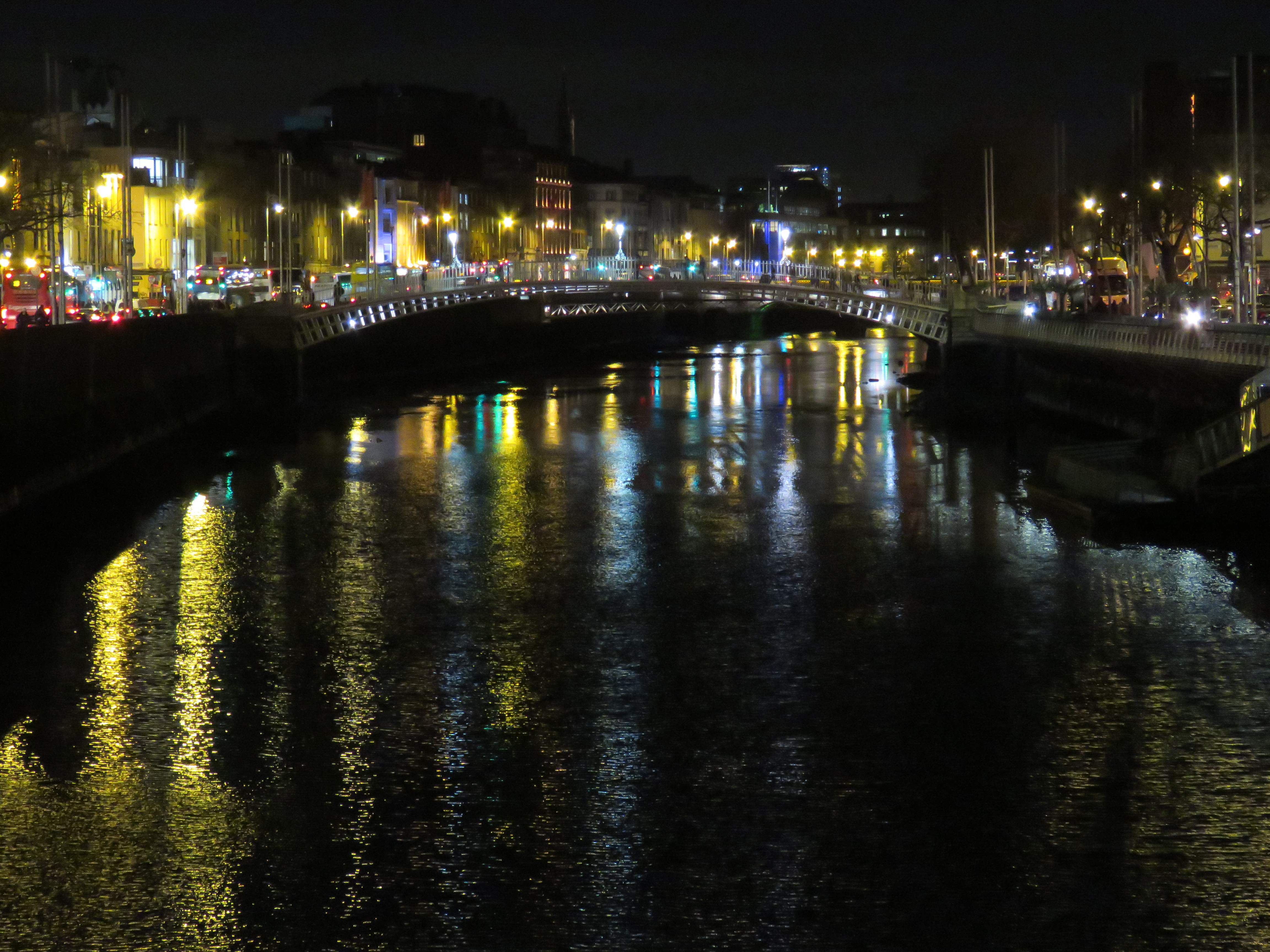 River Liffey and Ha'penny Bridge, Dublin, at night